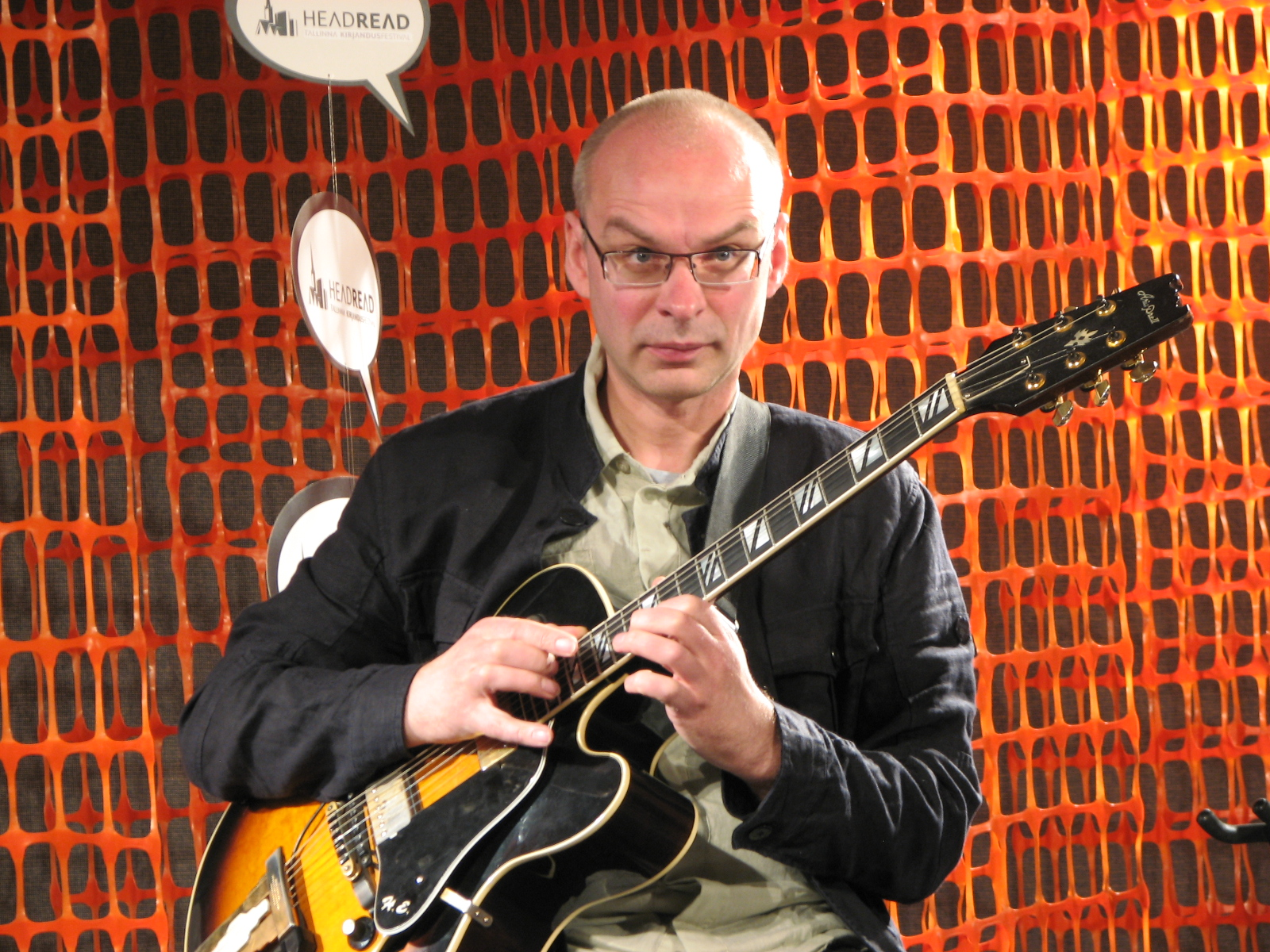 Mart Soo performing in Tallinn literature festival HeadRead 2011